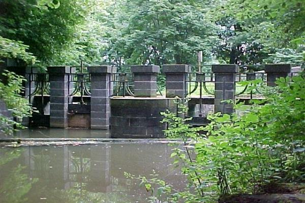 This is a photograph of an architectural monument.